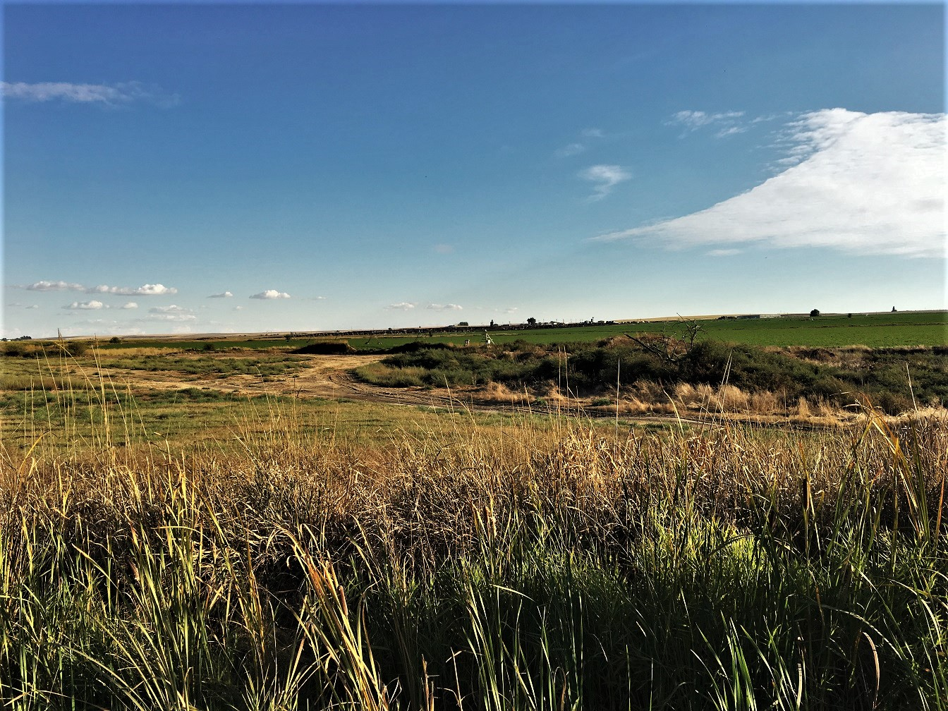 Lind Coulee Archaeological Site This is closest possible view of the Site without trespassing.